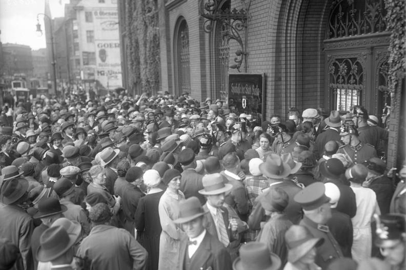 A bank run as depositors of the Savings Bank of Berlin on Mühlendamm Street learn of the collapse of the Darmstadt and National Bank attempt to withdraw their savings.